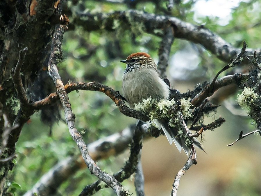 White-browed Tit-Spinetail ; Abra Malaga, Cuzco, Perú